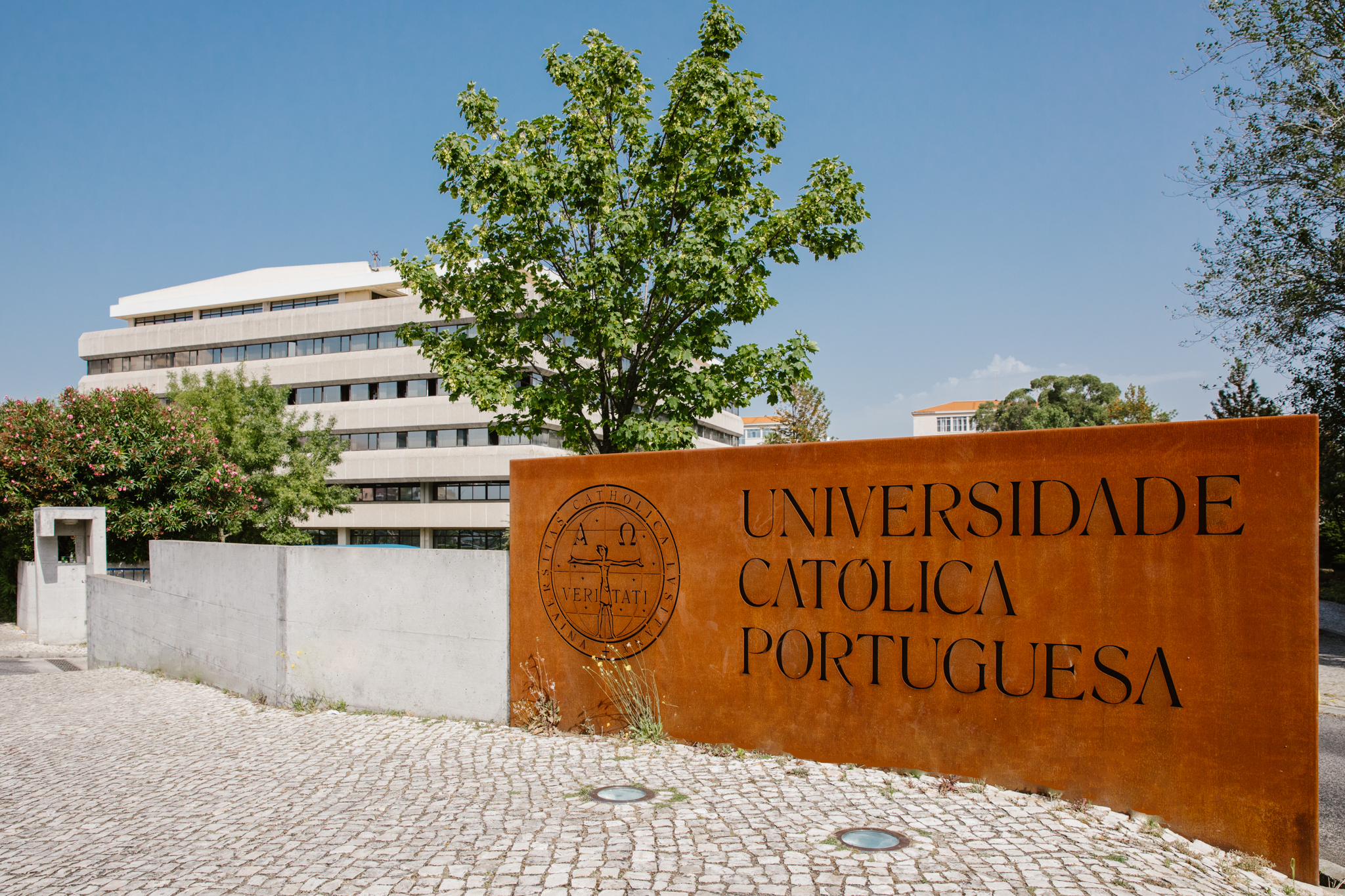 Universidade Católica Portuguesa - Lisboa